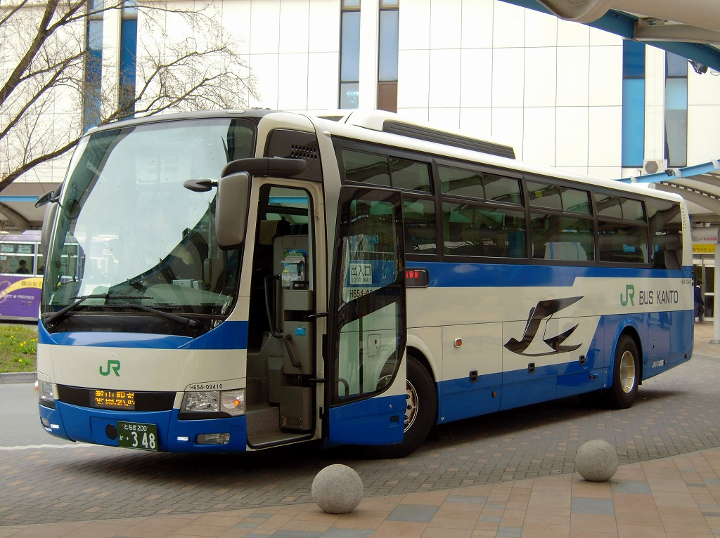 JR bus Kanto (Sano branch)Mitsubishi Fuso Aero AceHighwaybus "Abukuma"(Shinjuku-Koriyama)